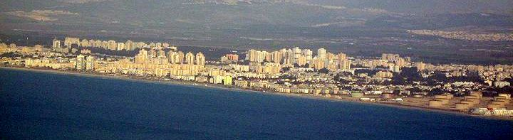 View of HaKerayot from Mount Carmel nearby upper end of Bahá'í terraces